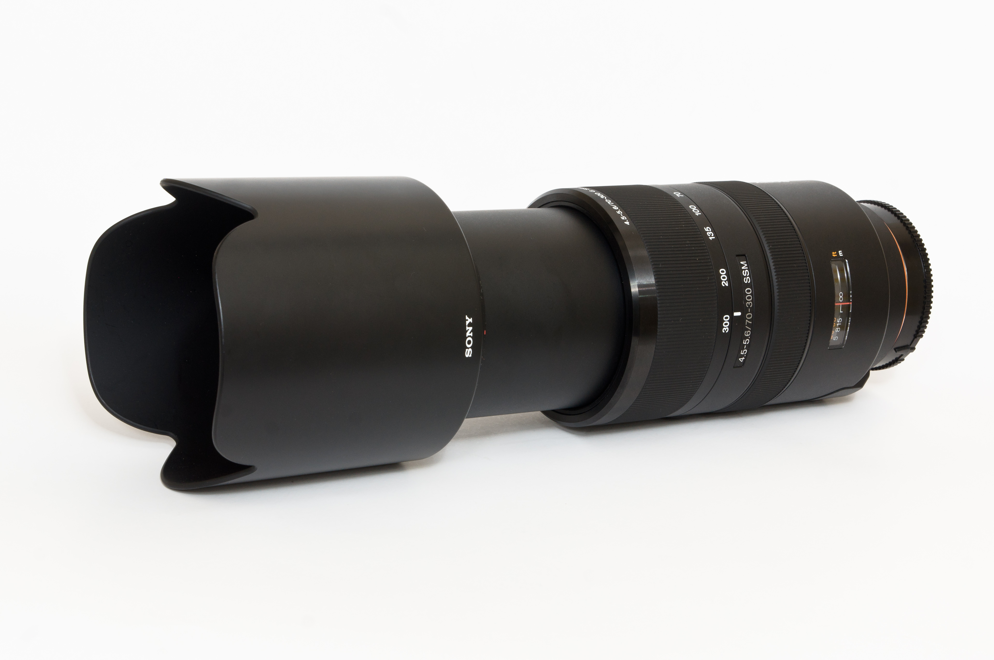 Sony 70-300mm f/4.5-5.6 G SSM (SAL70300G) telephoto zoom lens, constructed of 16 elements in 11 groups with one extra-low dispersion element.